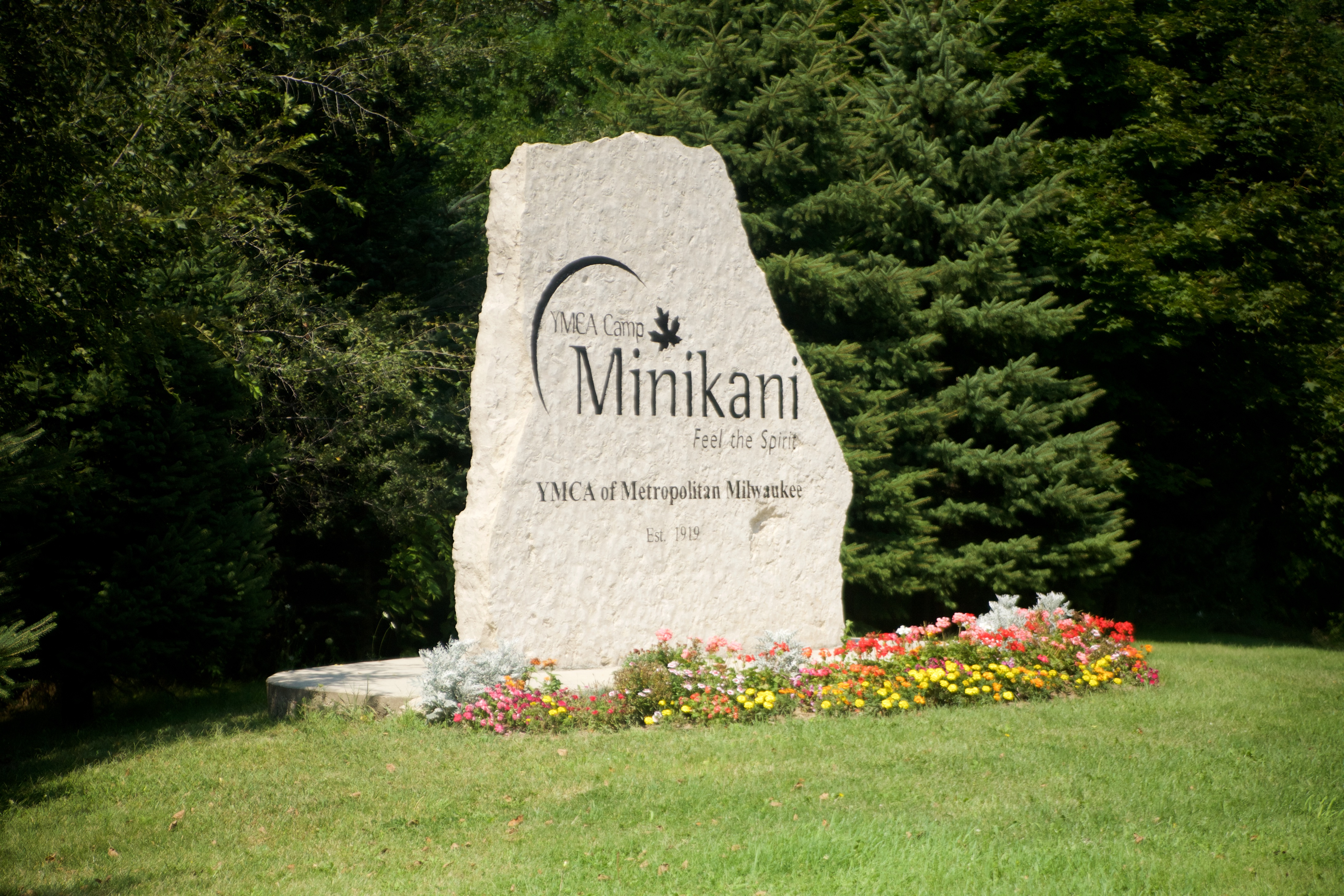 This photo is of the main entrance sign at YMCA Camp Minikani